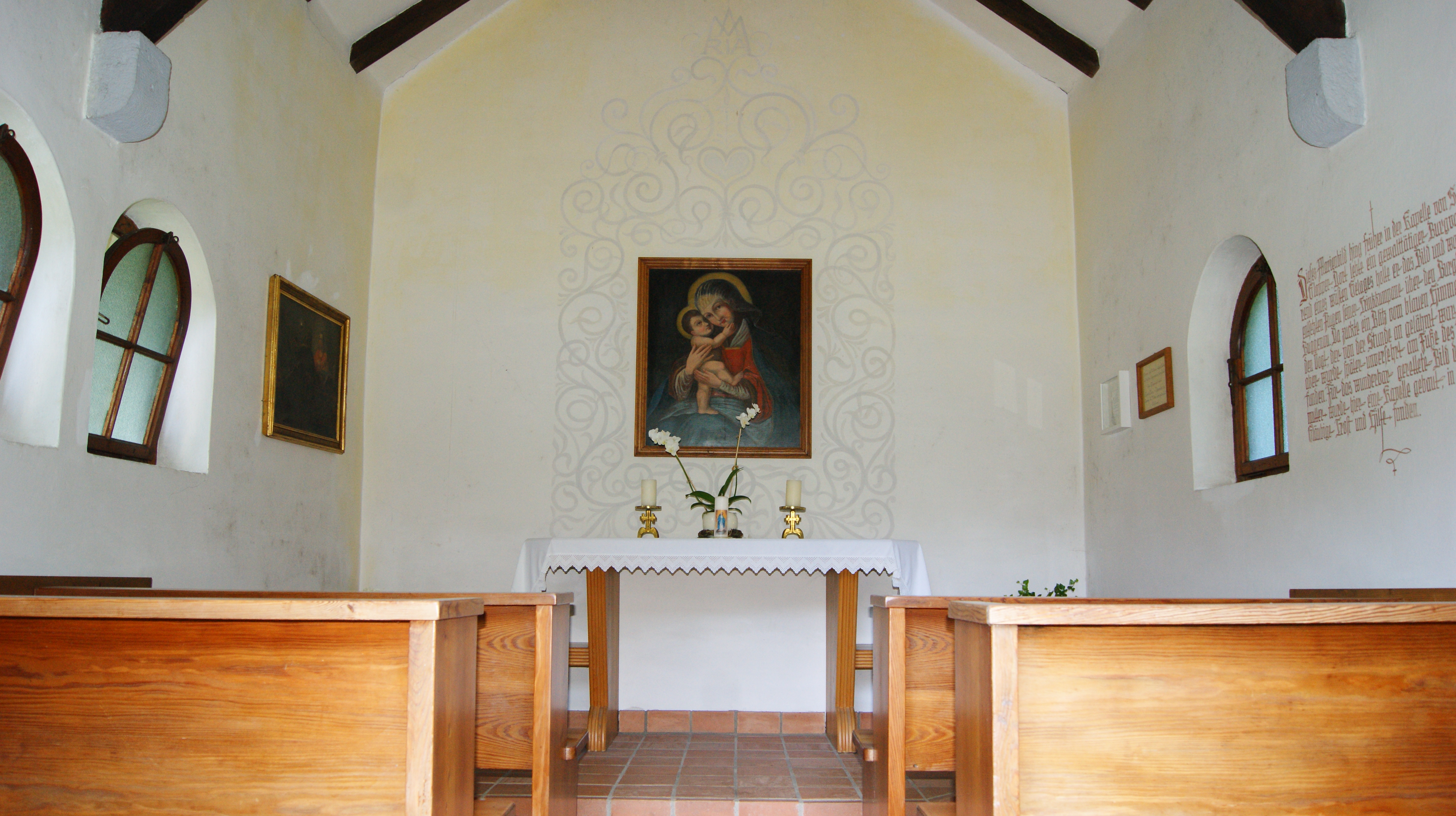 Interior of the Chapel St. Mary in Buggenau, Hohenems, Vorarlberg, [Austria .